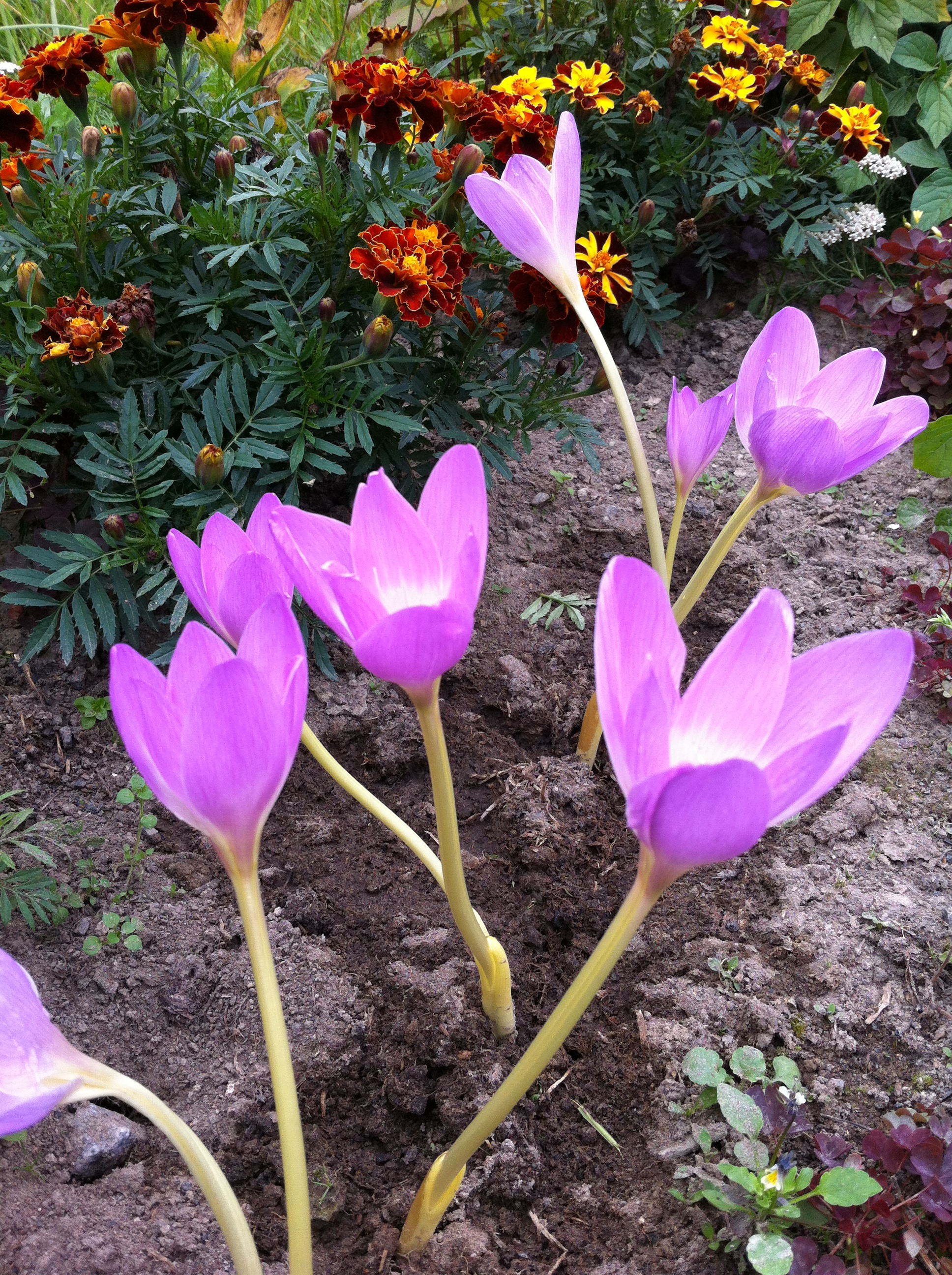 Cólchicum autumnále